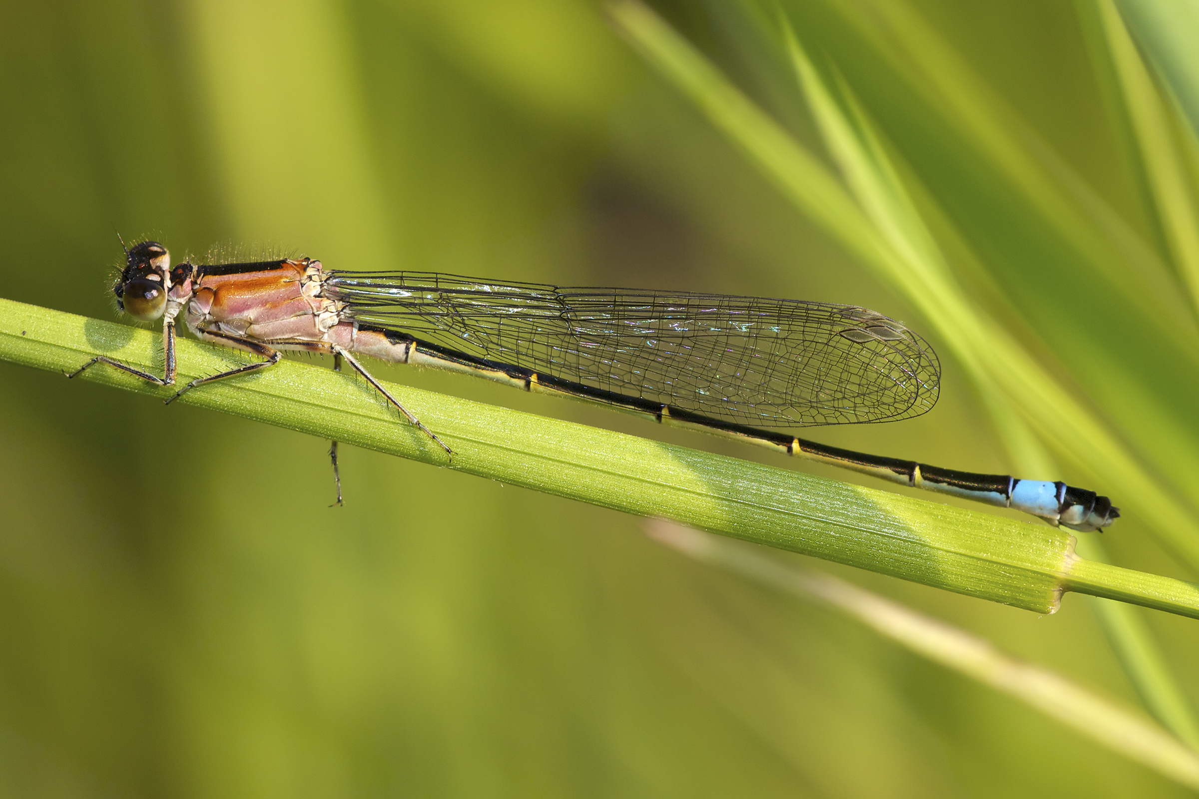 Young female Blue-tailed Damselfly (Ischnura elegans) forma rufescens, Chemnitz, Germany